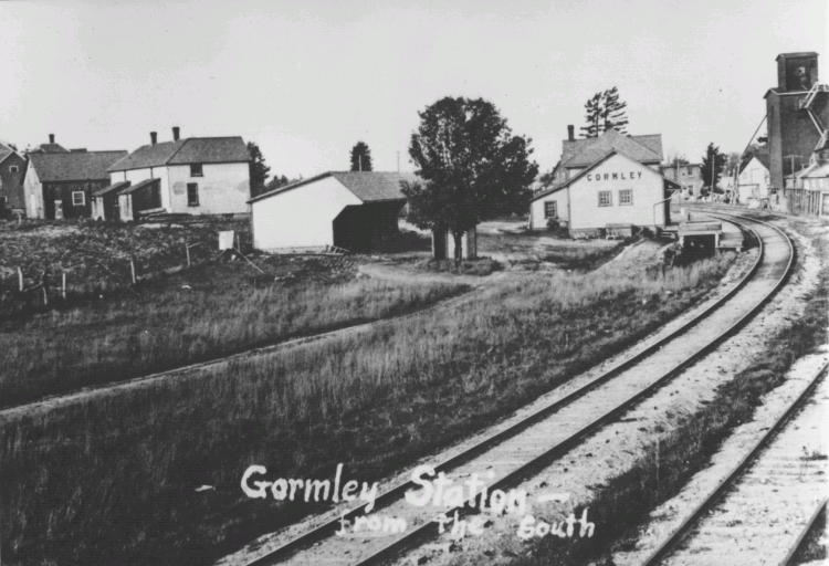 A view of buildings around railroad tracks in New Gormley (West Gormley) in the early 20th century. As was common in those days, small townsites tended to spring up around the railway's closest point of approach to nearby towns, in this case Gormley, just to the east. From left to right: a blacksmith's shop David and Jacob Heise's house (white) a driveshed for carriages, and the station, center. On the far right is a grain elevator, and in the background between the elevator and station is the offices of the North American Cement Block and Tile Company. The company is now known as Unilock, and continues to operate at this location, greatly expanded. The James Bay Railway ran from Toronto north to Perry Sound, and was part of Mackenzie and Mann's Canadian Northern Railway (CNoR). It was renamed the Canadian Northern Ontario Railway in 1906 and ultimately became part of Canadian National Railways. Today the line is known as the Bala Subdivision, and hosts both CN mainline traffic and GO service. This station was removed, but a new GO station has opened just to the north, around the bend seen in this image.